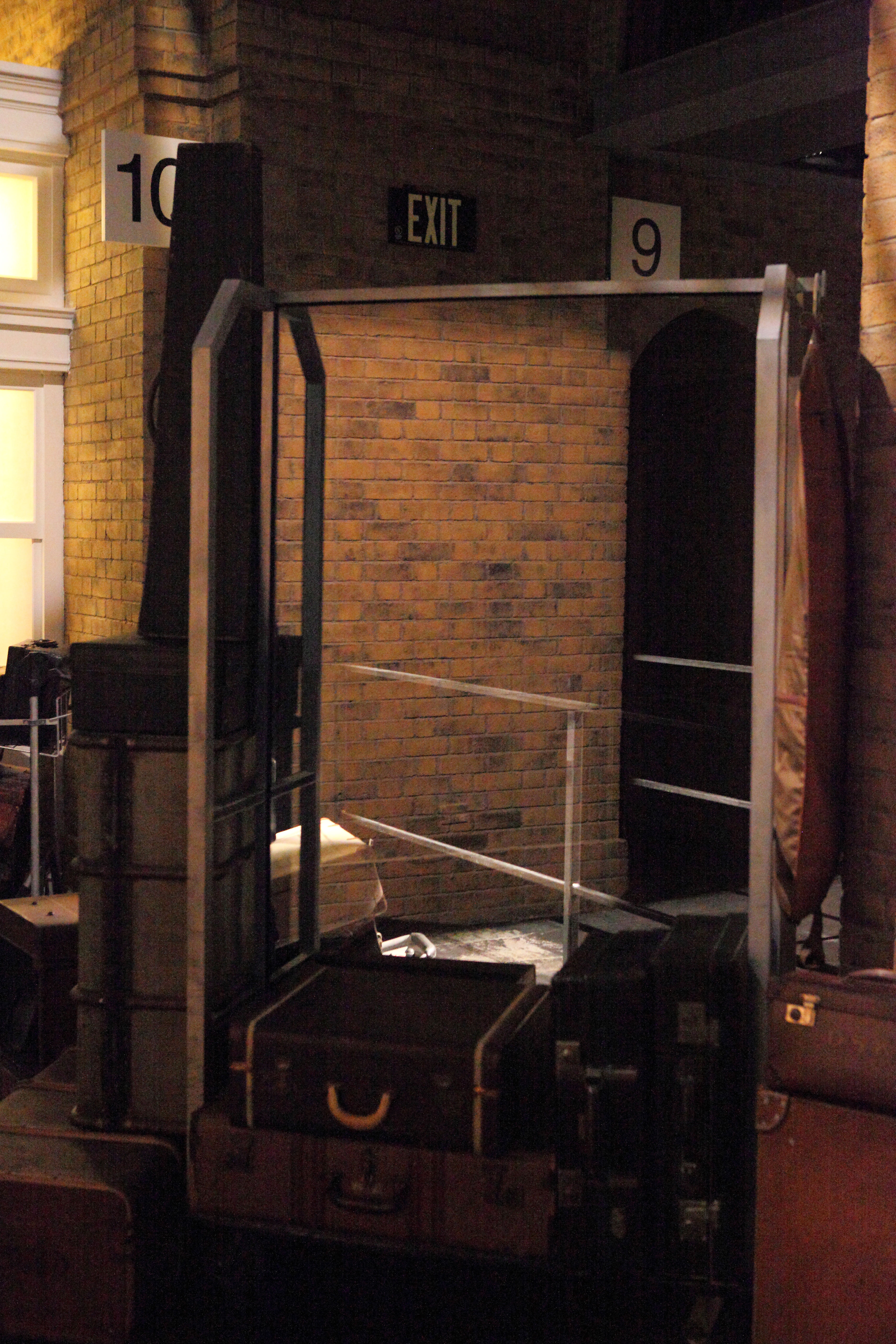 Pepper's Ghost illusion used as the entrance to Platform 9 3/4 at the King's Cross (north station) of the Hogwarts Express connector train between theme parks within Universal Studios Orlando.